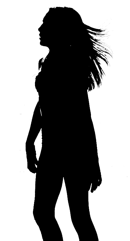 Two teen girls in silhouette on the harbor mouth entrance beach south of Morro Rock, during an ultra-low -1.7' tide before sunset on Morro Strand State Beach. 11 Jan. 2009. Photo by Michael "Mike" L. Baird , Canon 1D Mark III w/ Canon EF 70-200mm f/2.8 IS USM Telephoto Zoom Lens with circular polarizer and handheld.